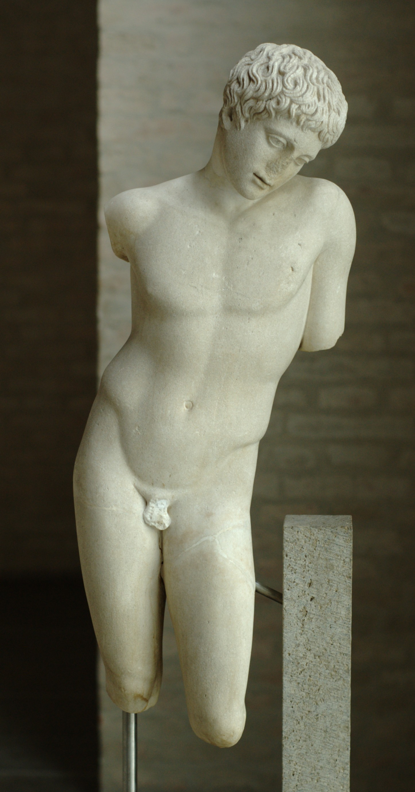 Young boy, formely supported with his left arm on a column. Copy after the statue of a victorious boy in a fight, school of Polykleitos (ca. 410 BC).